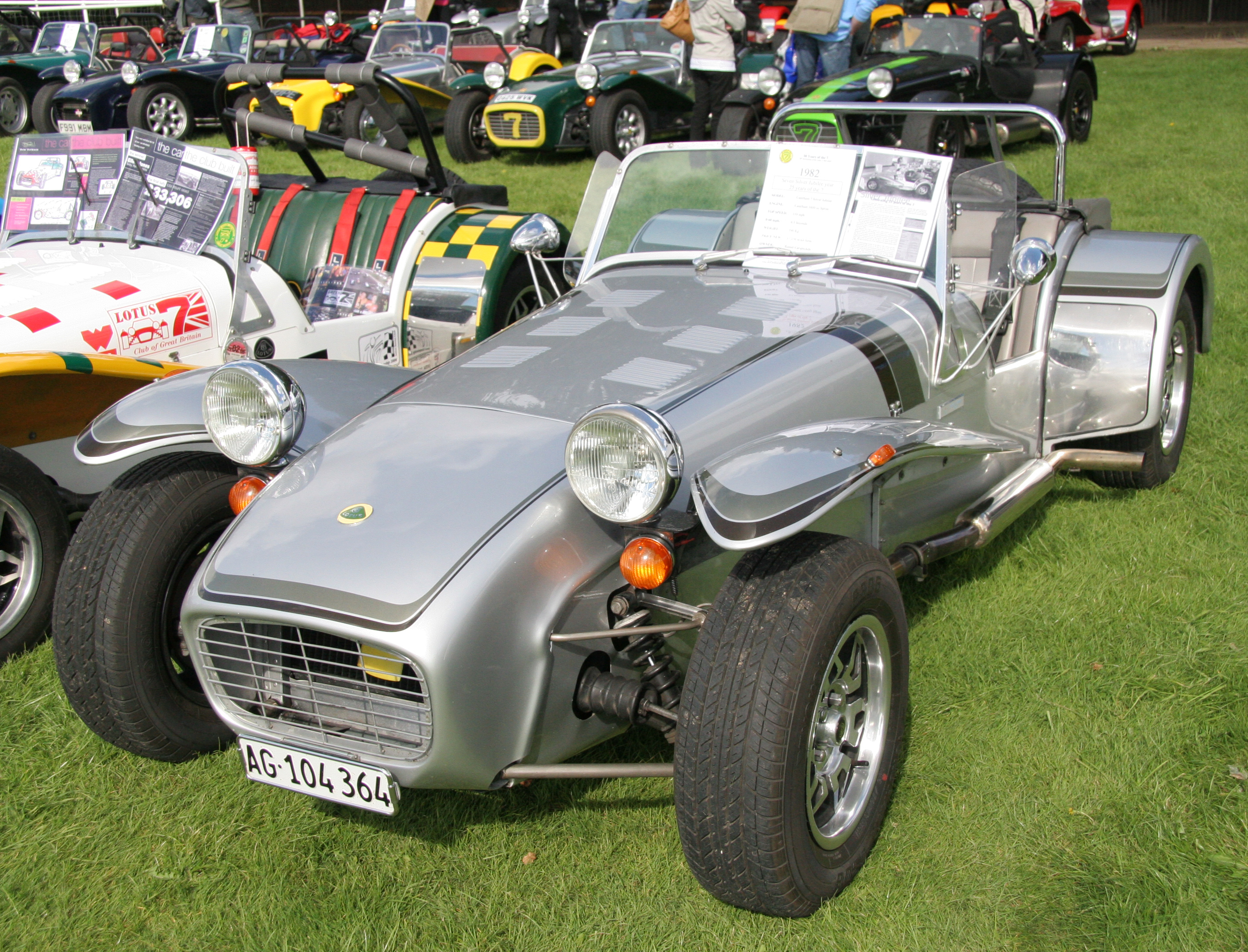 1982 Caterham 7 Silver Jubilee edition